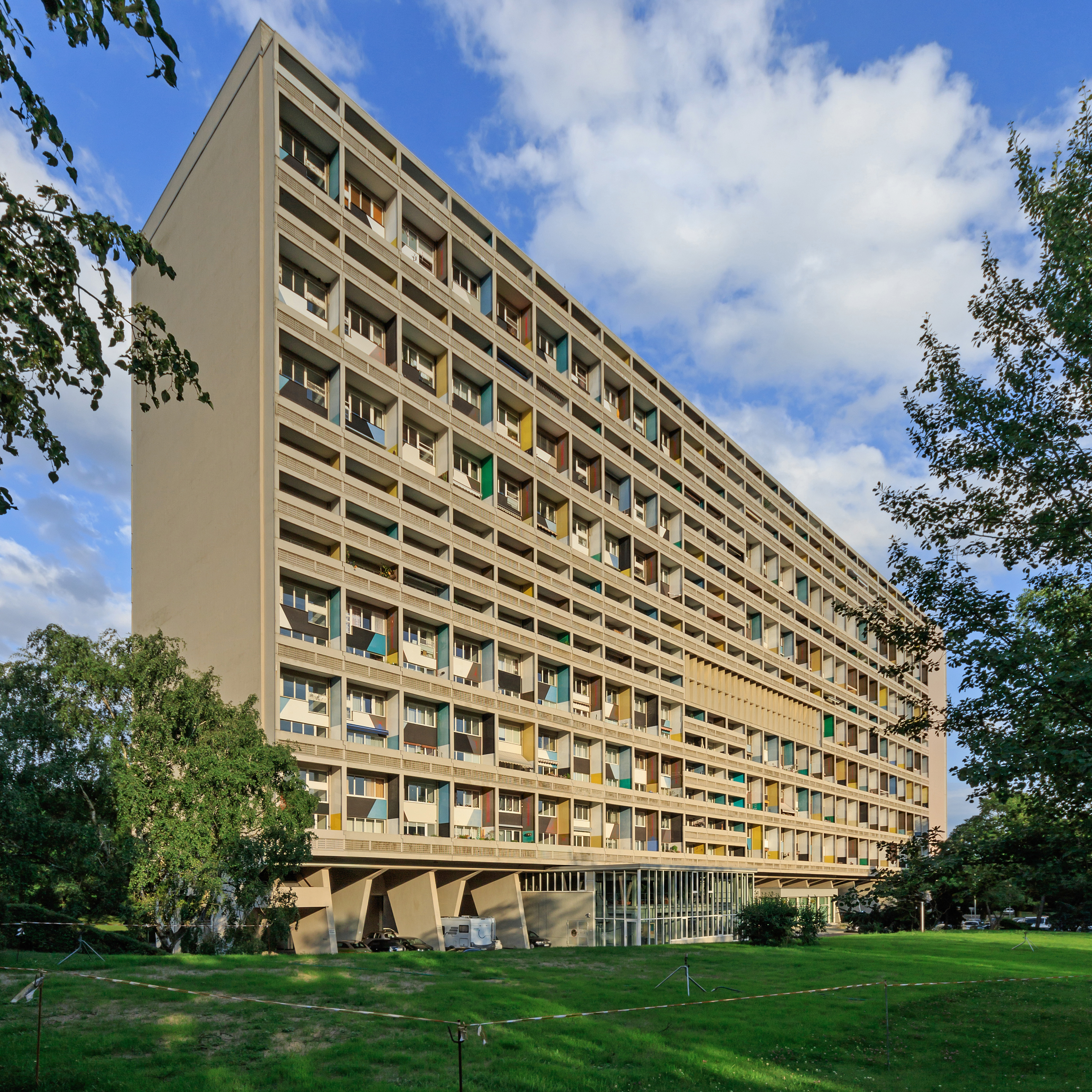 Le Corbusier's apartment house in Berlin (Germany)